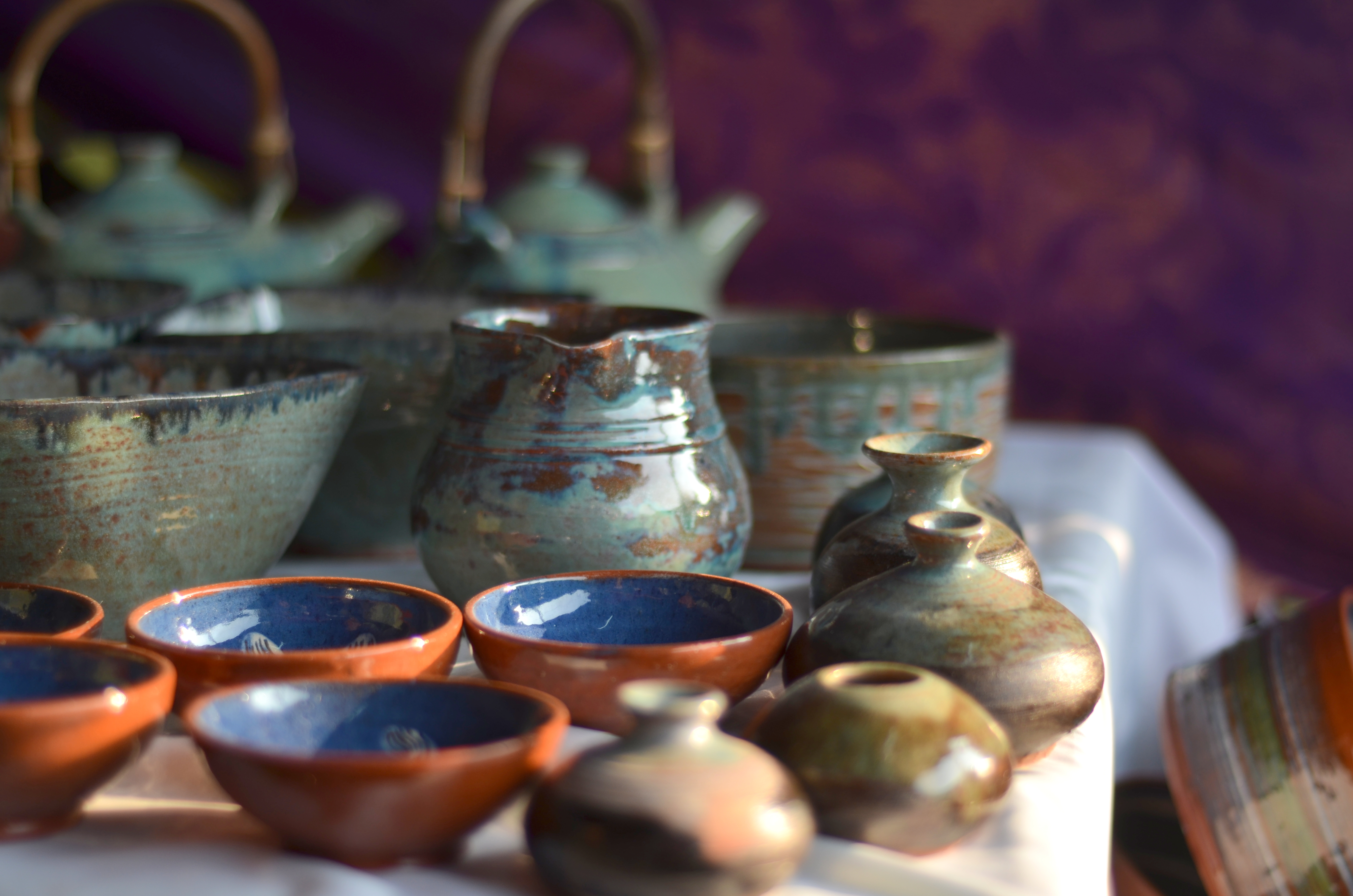 Pottery from artists' colony Andretta, Himachal Pradesh, at Dastkar Bazaar, Delhi.